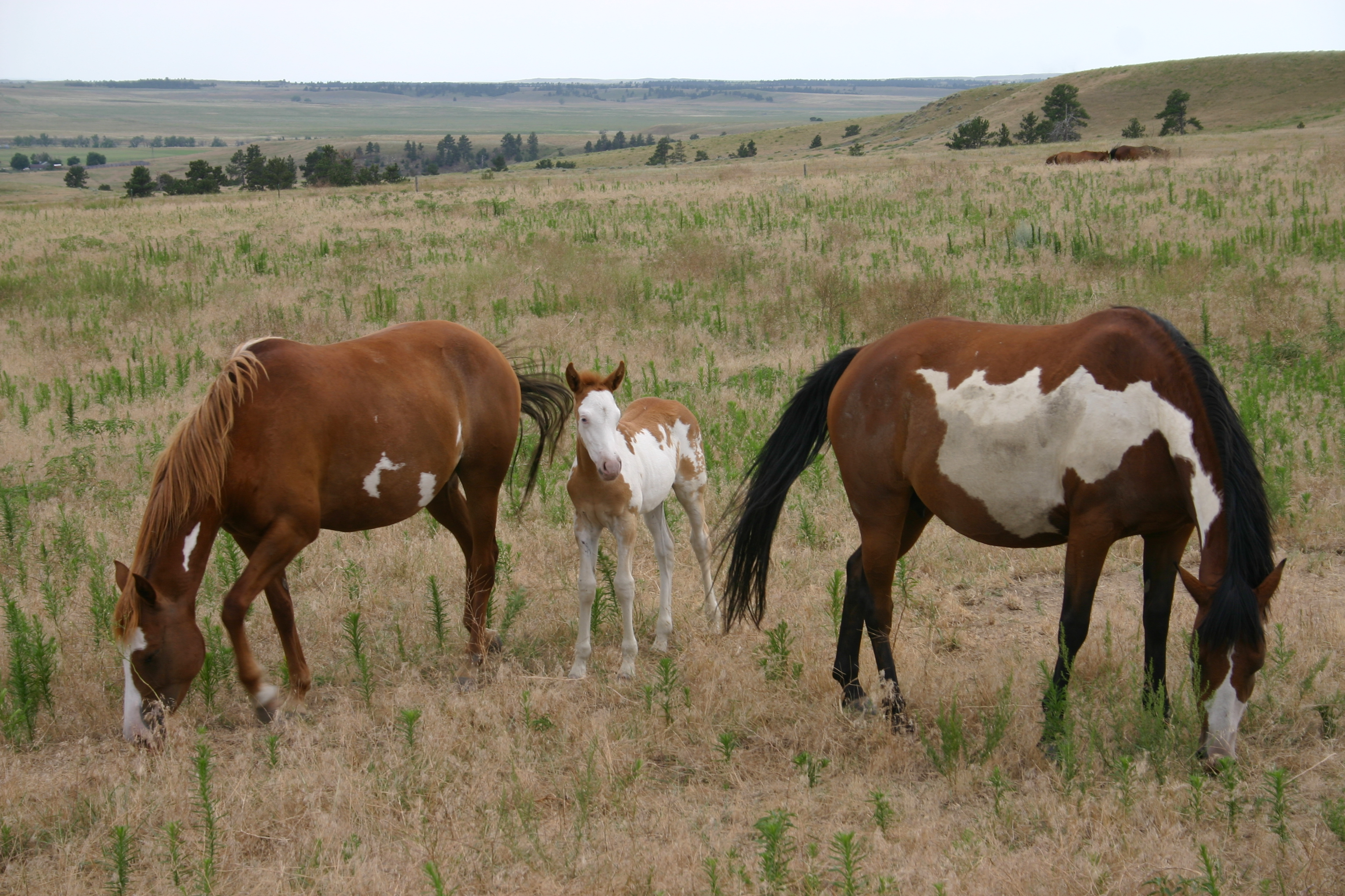 Wild Horse Sanctuary, South Dakota